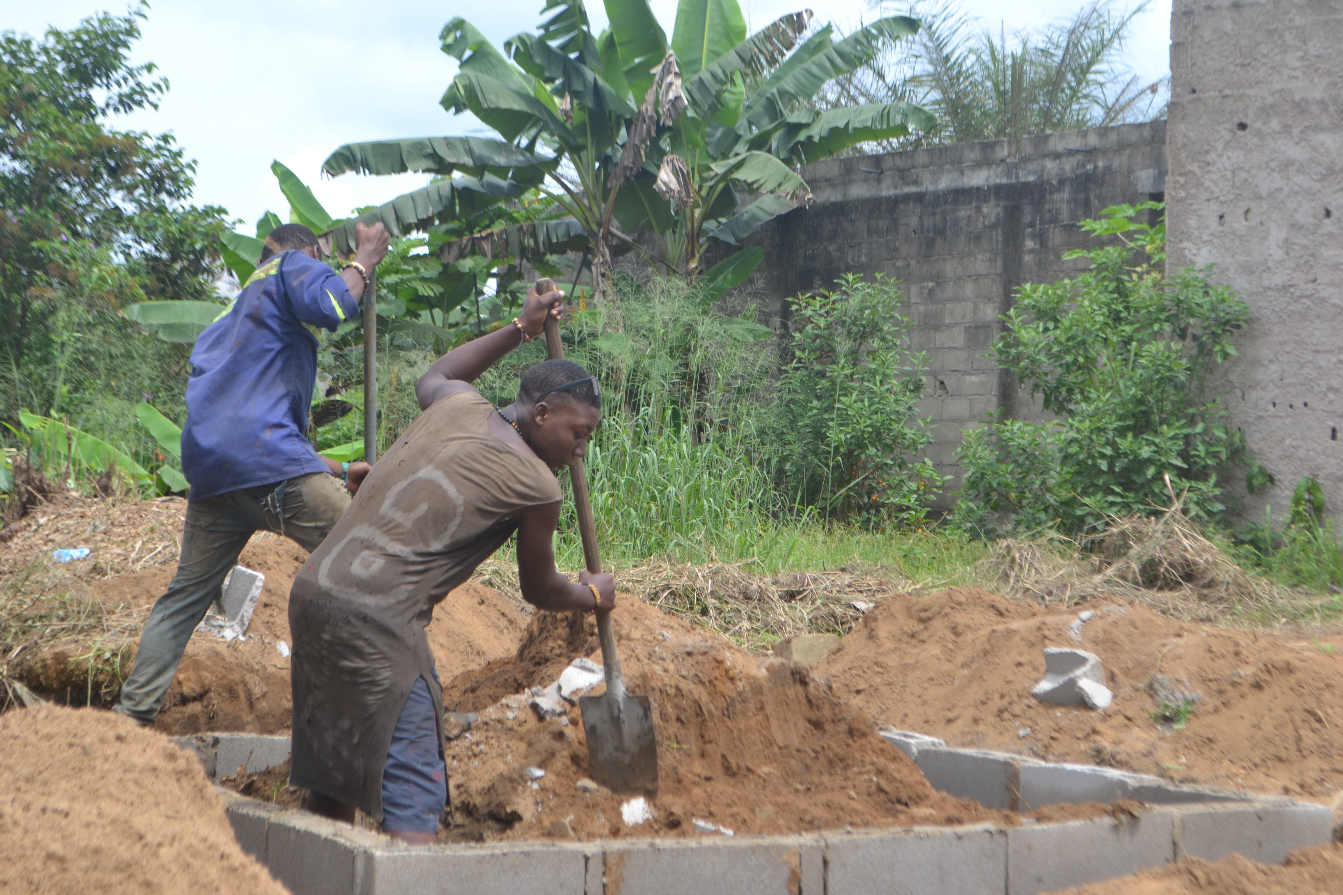 Two boys working on a house foundation This is an image of "African people at work" from Cameroon